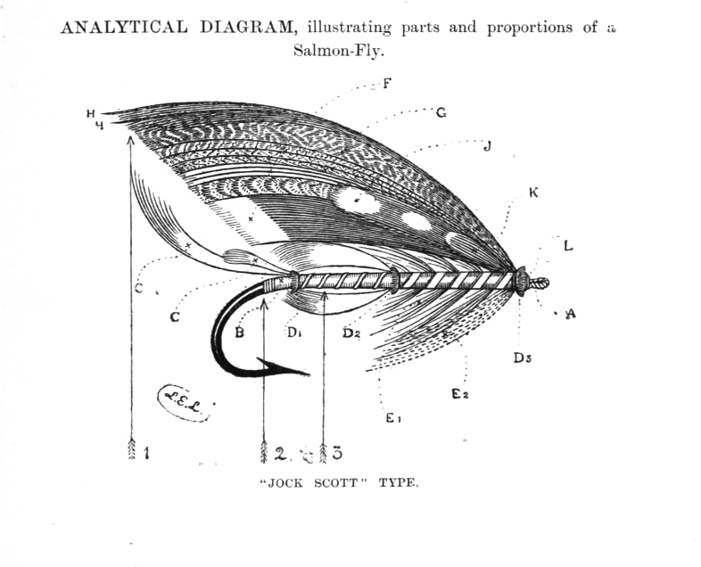 Salmon fly tying A. Gut loop. B. Tag: here in two sections—silver twist, succeeded by floss silk. CC. Tail. Of a topping and an Indian crow feather. D1, D2, D3. "Butts." Between D1 (tail-butt) and D3 (head-butt) lies the Body divided in this type of fly into two sections by D2 (section-butt), each section having 5 Ribs of tinsel ; D2 is here preceded (in order of construction) by Toucan feathers above and below. E. Hackle. Here distinguished as the "Upper section hackle." When wound over nearly the whole length of the body it is termed the "Body hackle." E2. Throat - hackle, usually written "Throat." G. Under-wing. Hereof "white-tipped" Turkey. HH. Horns. J. Sides. K. Cheeks. L. Held. 1. Is a line showing a proper length of tail and wing beyond the hook-bend. 2. Indicates the place of the first coil of the tag relatively to the hook-barb, the barb supplying the best guide to the eye in the initial operation of tying on the "tag" material. 3. Indicates the place on the hook-shank (relatively to the hook-point), at which the ends of the gut loop should terminate, leaving the gap, for adjustment. This figure is intended also to give the student a general idea of the due proportions and symmetry of a good fly, as a whole, and in its parts severally. In dressing, the terms " head wards" and "tailwards" mean towards right and left respectively, as seen in the plate. The terms "bend of the hook," " point of the hook," " point of the barb," " barb-junction," etc., explain themselves on inspection. By a mane —a common term in Ireland—is understood a tuft of mohair introduced at some place on the body after the manner of the upper group of Toucan feathers seen in the plate in rear of section-butt D2. But as this means of ornamentation is not considered favourable, I shall leave the subject alone for a while.